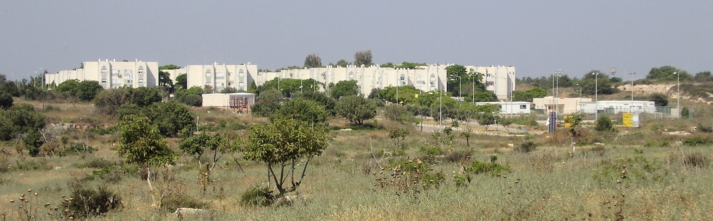 The northern neighborhood of Harish, Israel